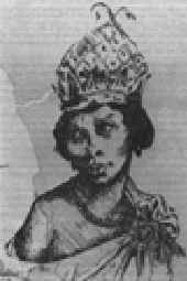 Queen (Ngola Ann Nzinga Mbande)